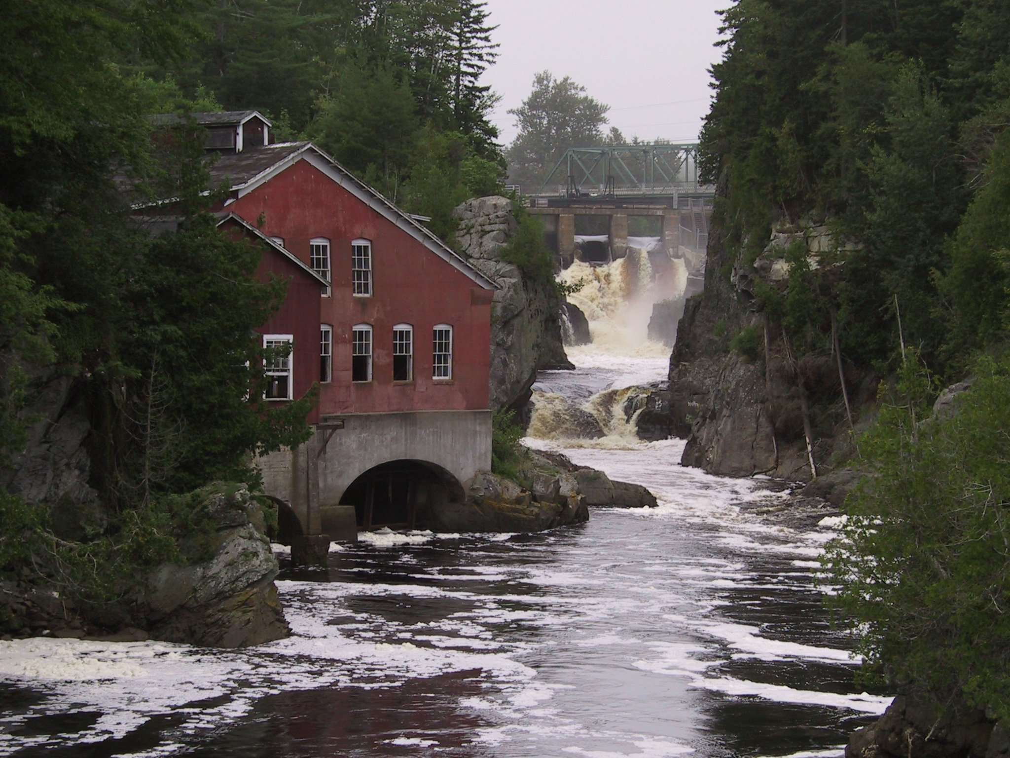 I, Alex Vye, took this photo in St. George in October, 2003. I am putting it here in the commons for people to freely use.